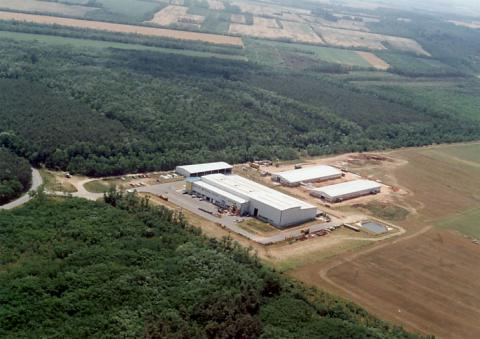 Csönge, Hungary, aerialphotography, Buildings of the Binder Industrial Construction Co. (Binder Ipari Szerkezetépítő Kft.) in the industrial park, Csönge, Vönöcki út (en. Vönöck fieldroad), Nyugati dűlő (en. Western Field), Industrial Park 501.